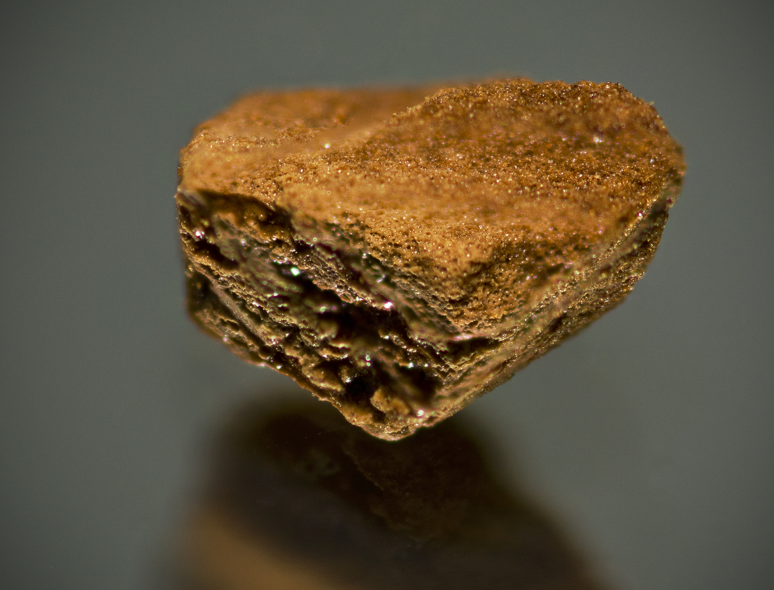 It was over in an instant. Well, 1/250th second to be precise. But you wouldn't believe how many grains I had to audition for this shot. Tokina 100mm macro + 68mm Kenko extension tubes, diffused flash. 5 image focus stack. Not perfect but I was very short of time.